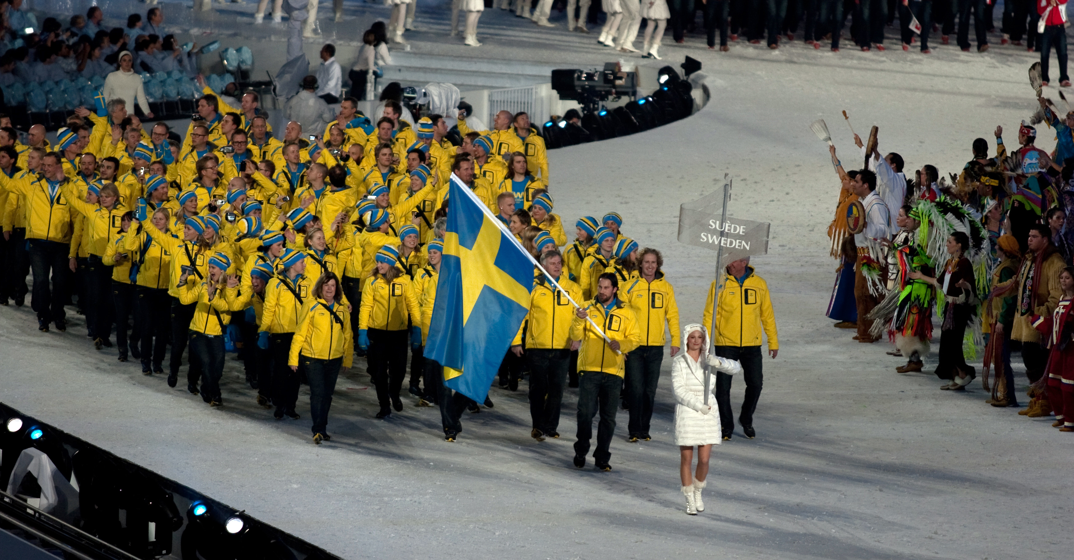 The athletes from Sweden entering the stadium at the opening ceremonies of the 2010 Winter Olympics